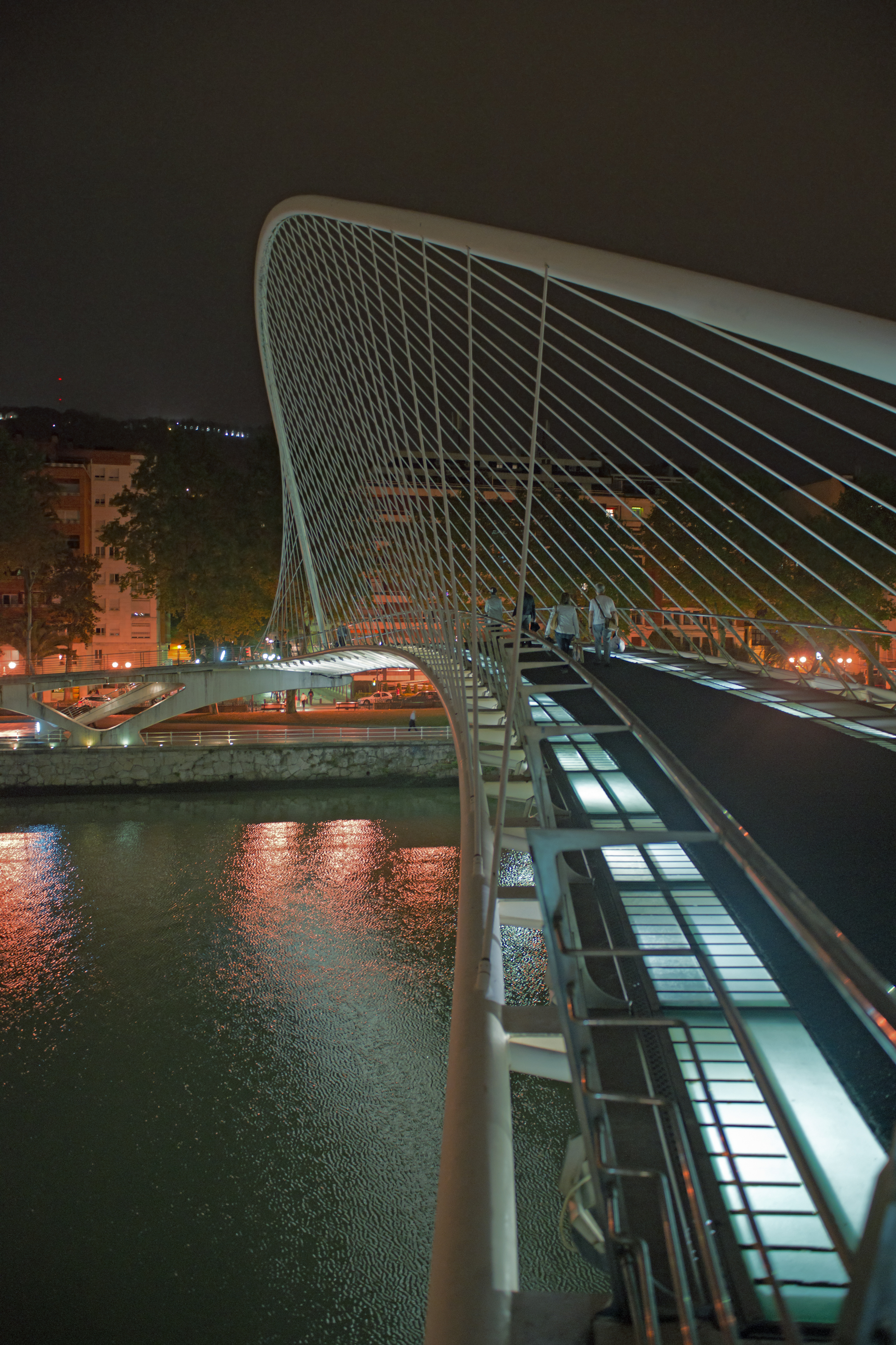 Zubizuri is a pedestrian bridge crossing the Nervión river in Bilbao. Architect: Santiago Calatrava.